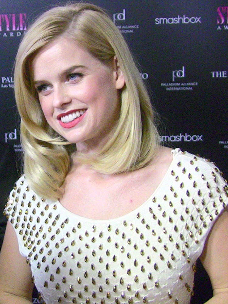 Alice Eve at the 2011 Hollywood Style Awards: Red Carpet Report